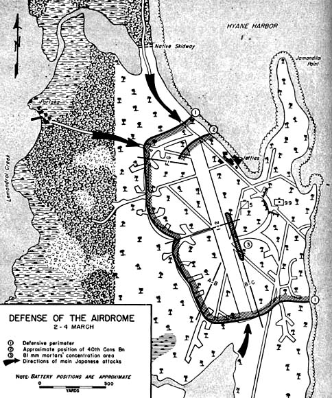 Third day's beachhead on Los Negros, 2 March 1944.